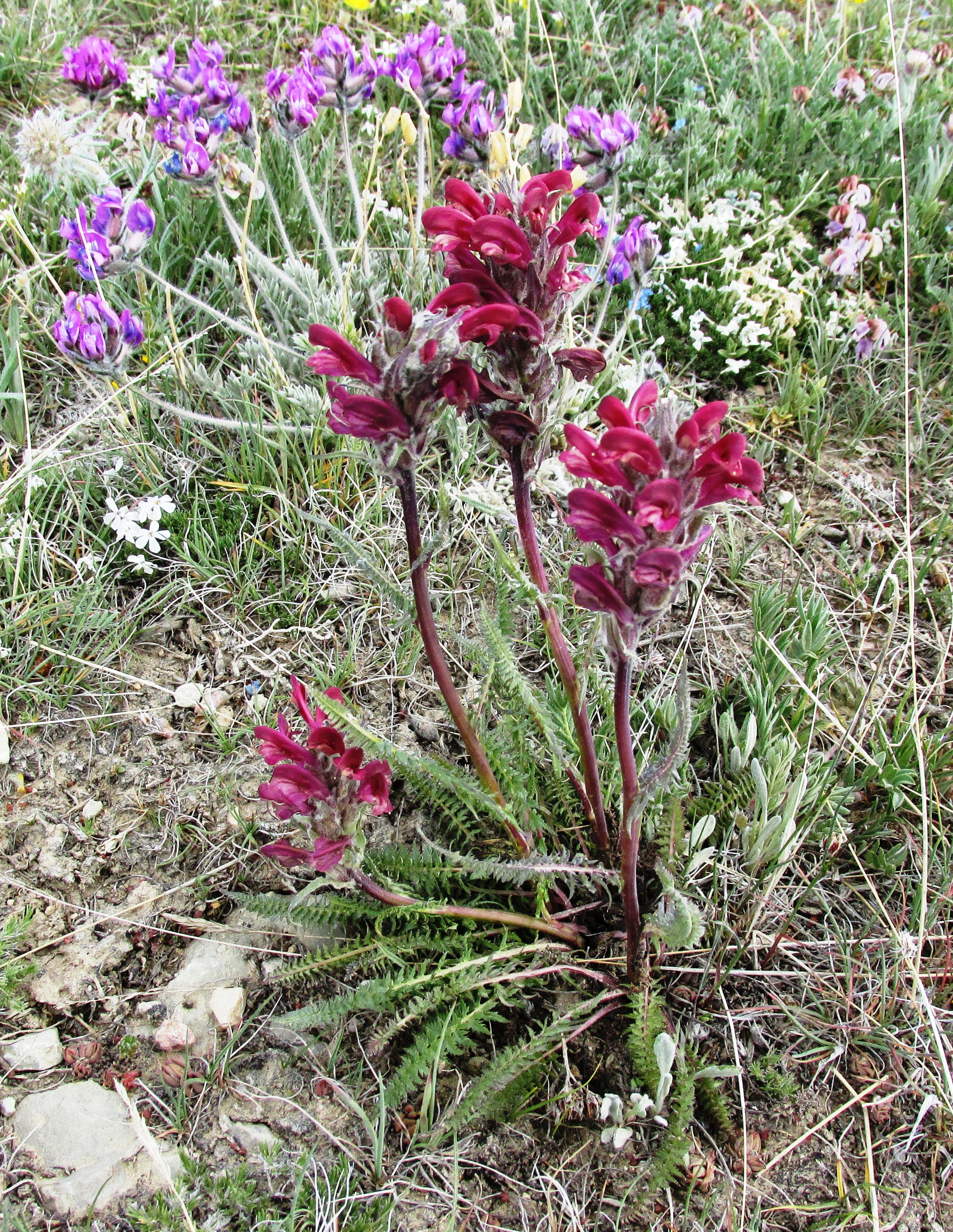 Pedicularis cystopteridifolia 2865 meters (9400 feet) Meadow next to Medicine Mountain road Bighorn National Forest, Wyoming sw16 163